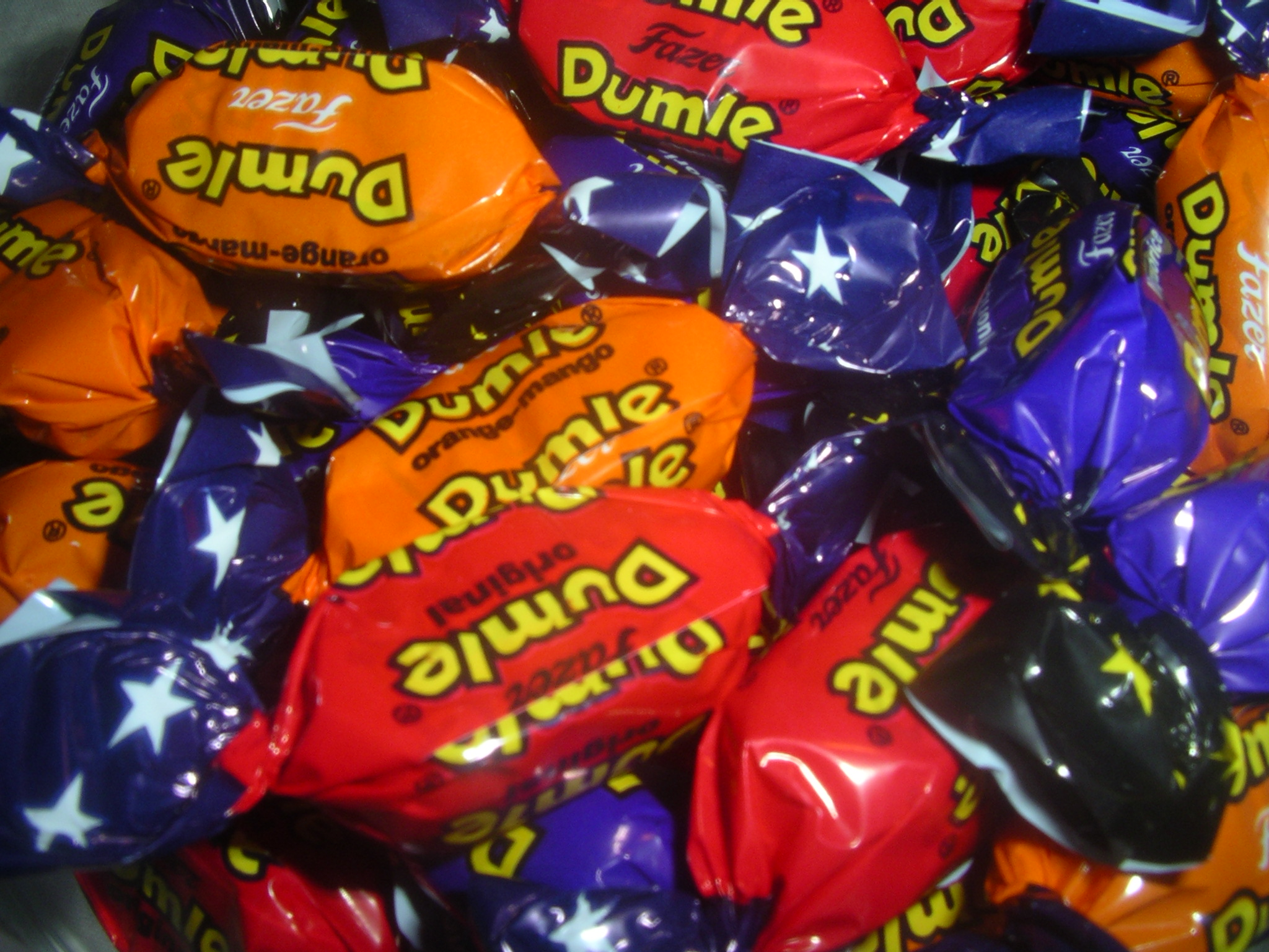 A photo on a few candys called "Dumle".